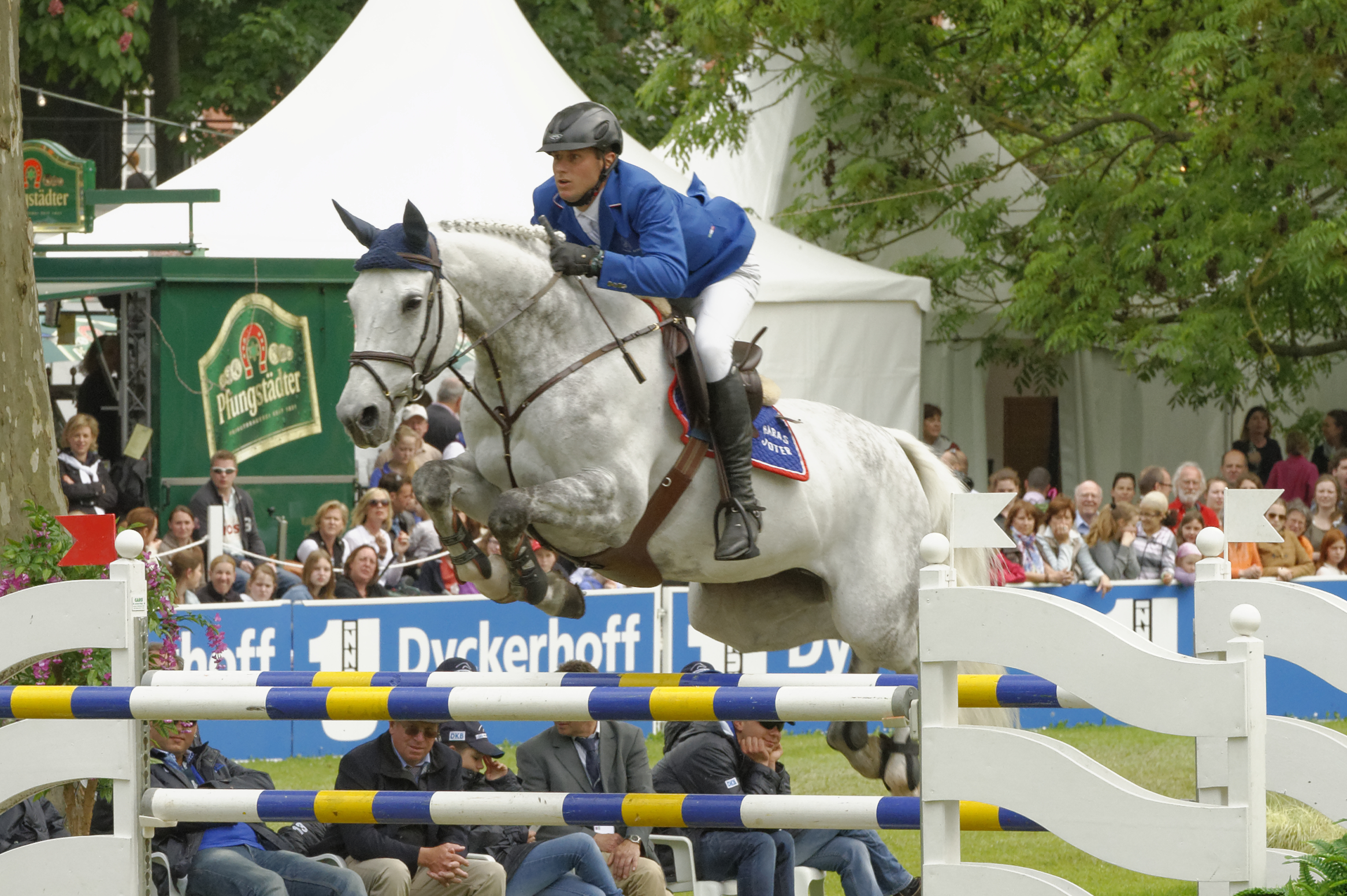 Internationales Pfingstturnier Wiesbaden 2013 The making of this document was supported by the Community-Budget of Wikimedia Germany.